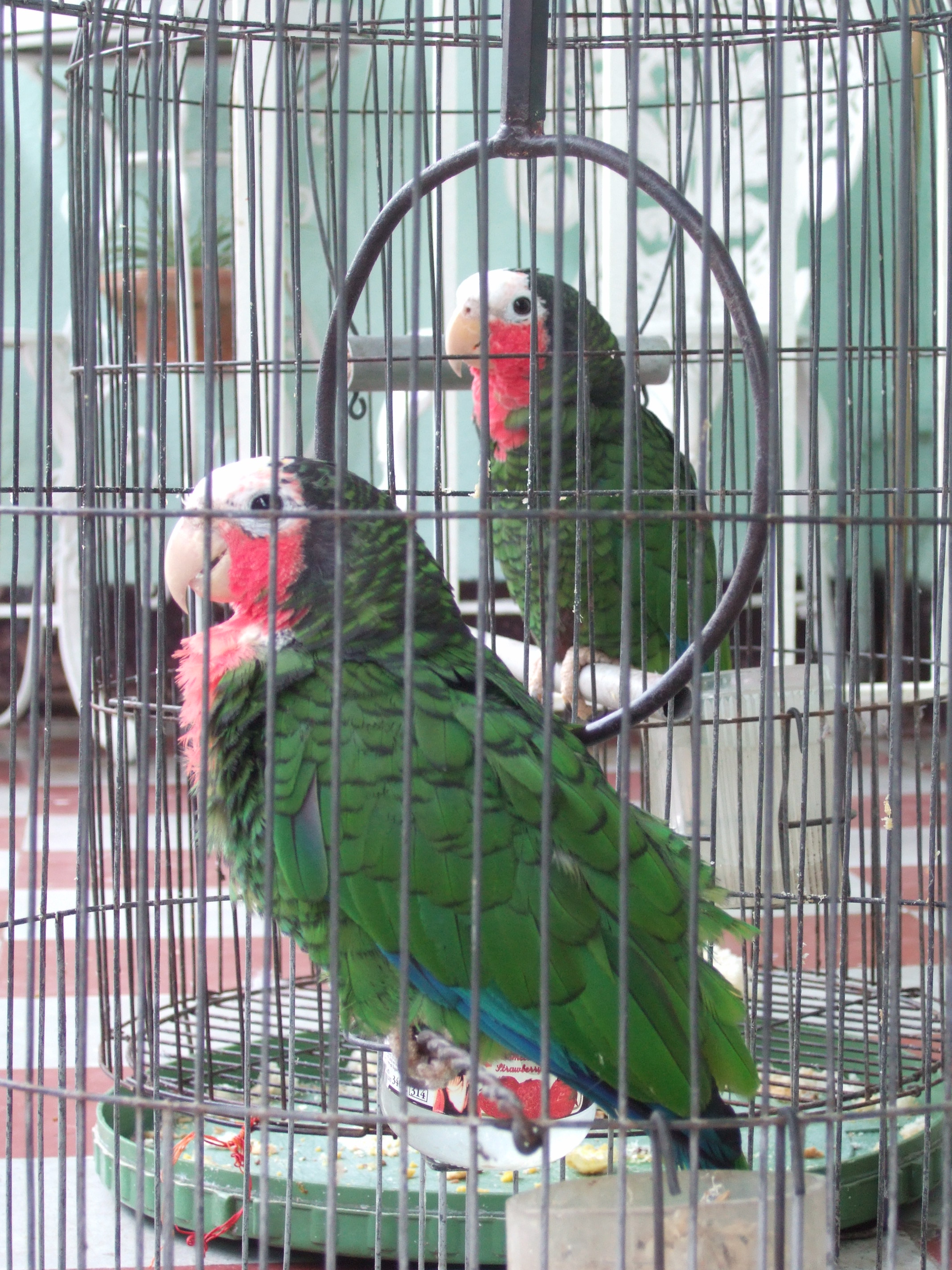 Cuban Parrot (Amazona leucocephala) in Cuba (2007). Pet parrots.